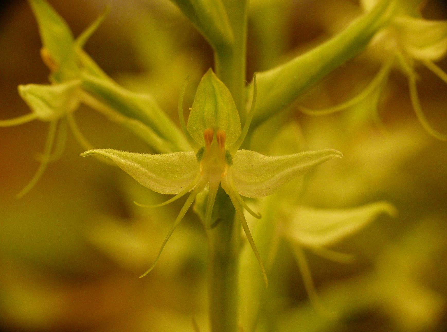 Habenaria panigrahiana in cultivation in southern India